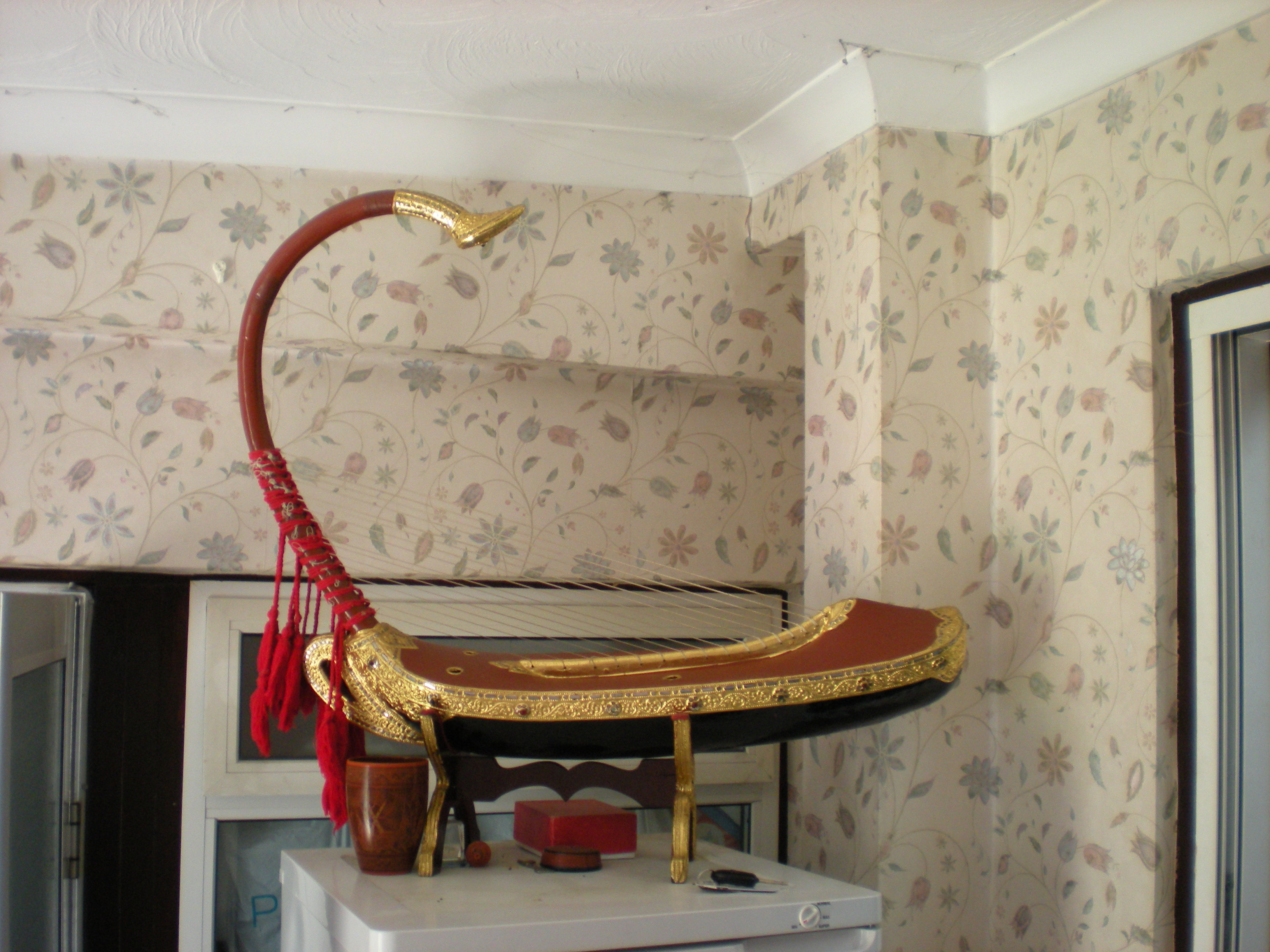 Burmese cultural music instrument, a Saung (Bow harp)